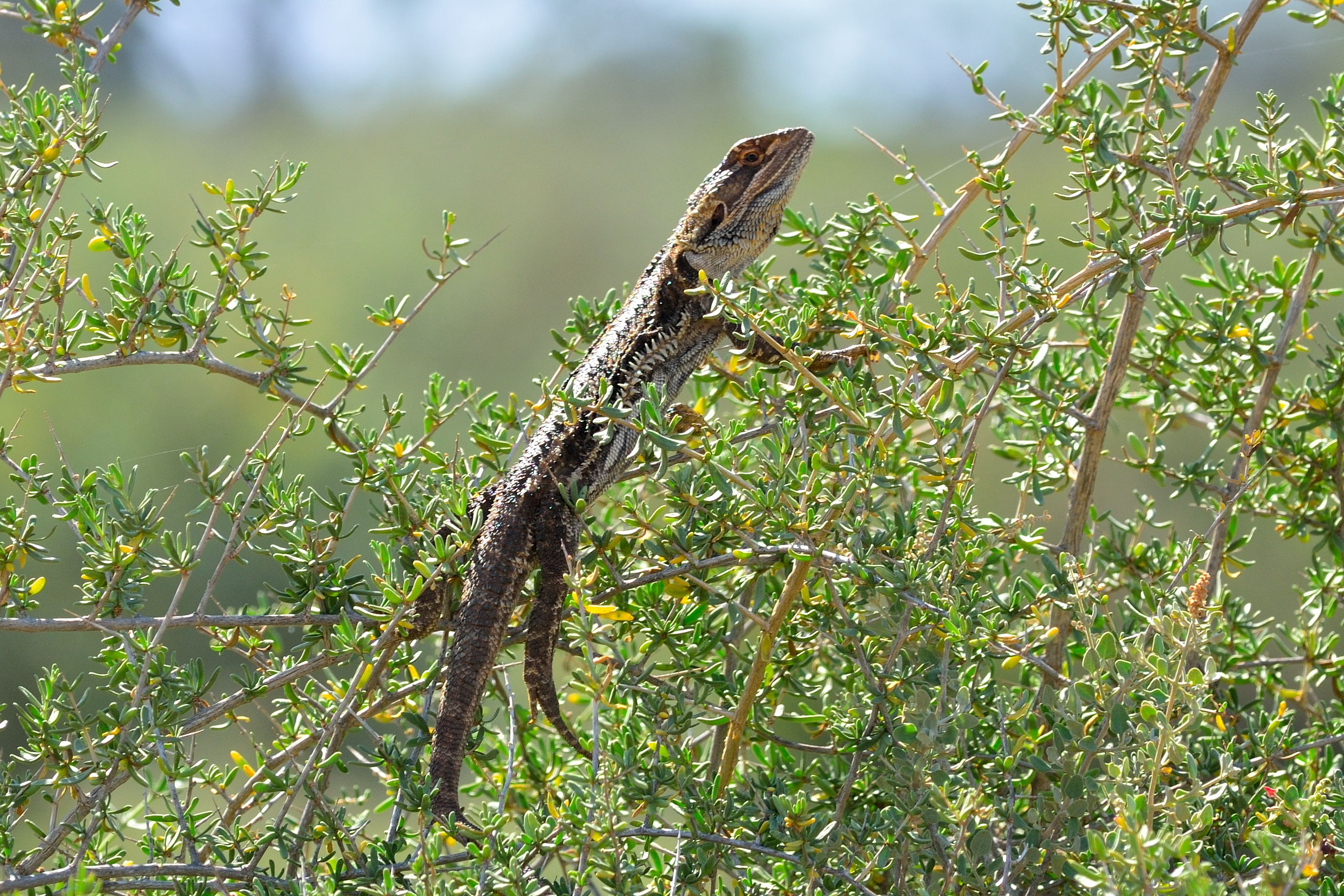 Pogona vitticeps / Central Bearded Dragon 21 Nitraria billardierei / Dillon Bush / Nitre-bush, photographed at Neds Corner in Australia (-34.156967 , 141.352646)